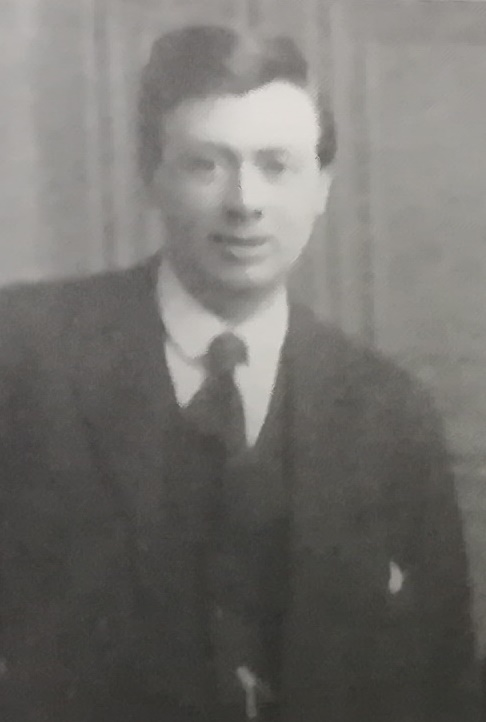 George Buchanan, member of Glasgow City Council and the executive of the United Patternmakers' Association. Future MP.